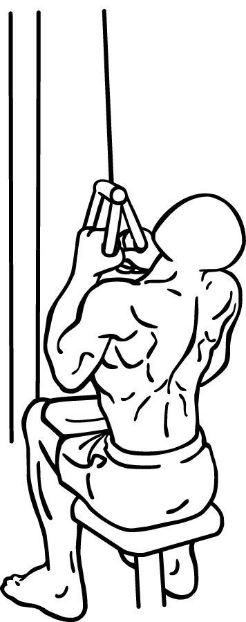 an exercise of upper back